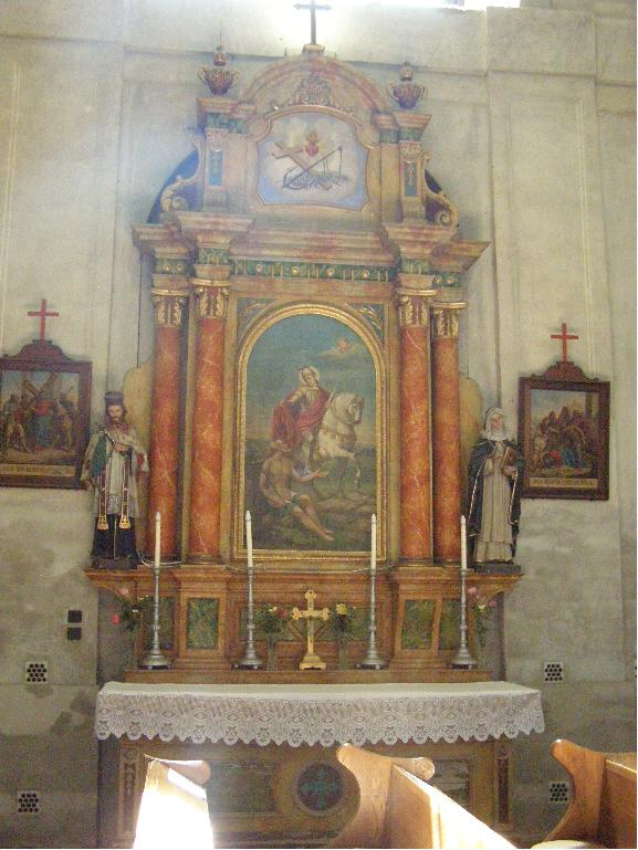 The left side-altar in the Istvánfalvian Church: St. Martin of Tours and the pauper